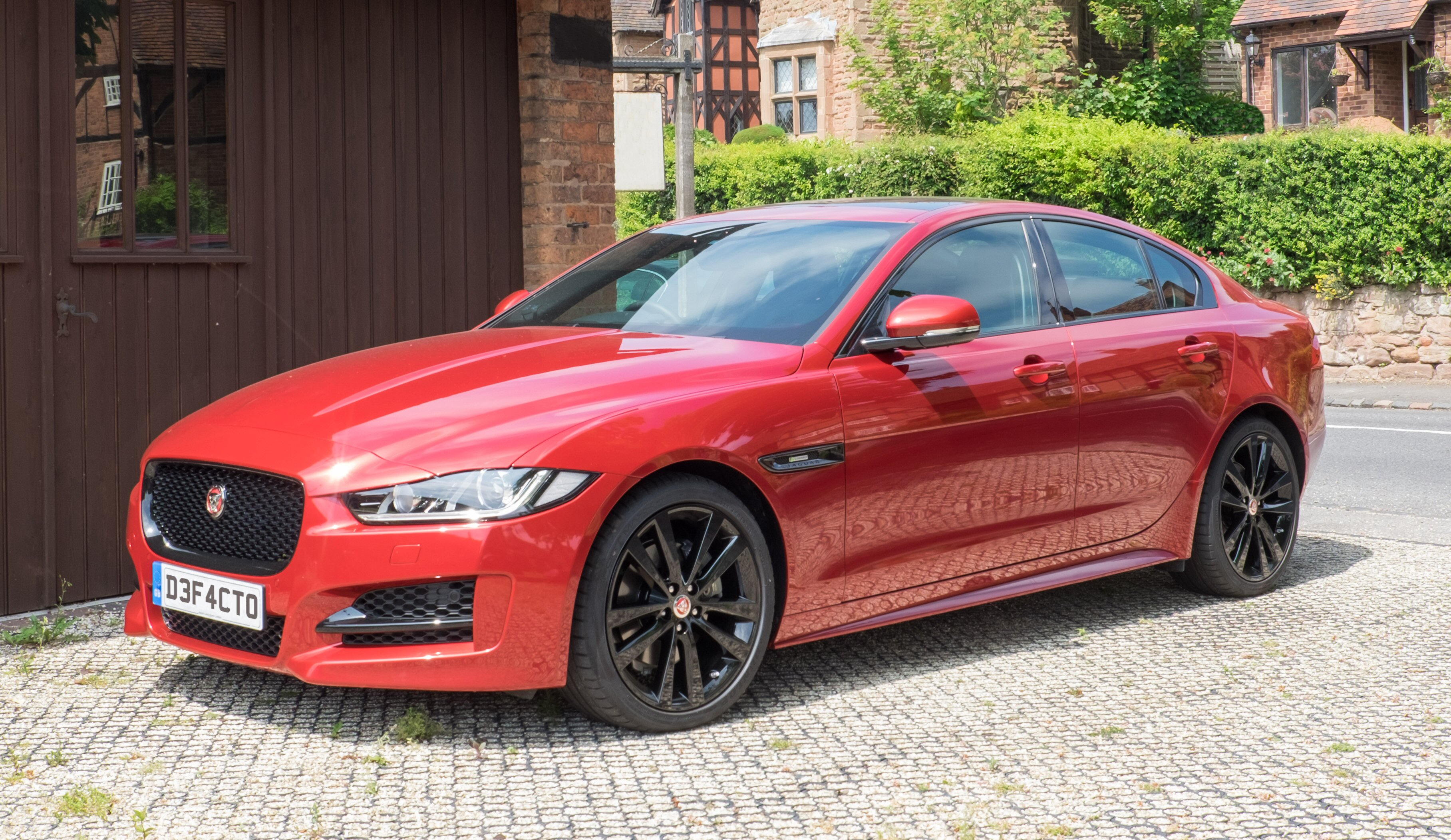 A 2016 Jaguar XE